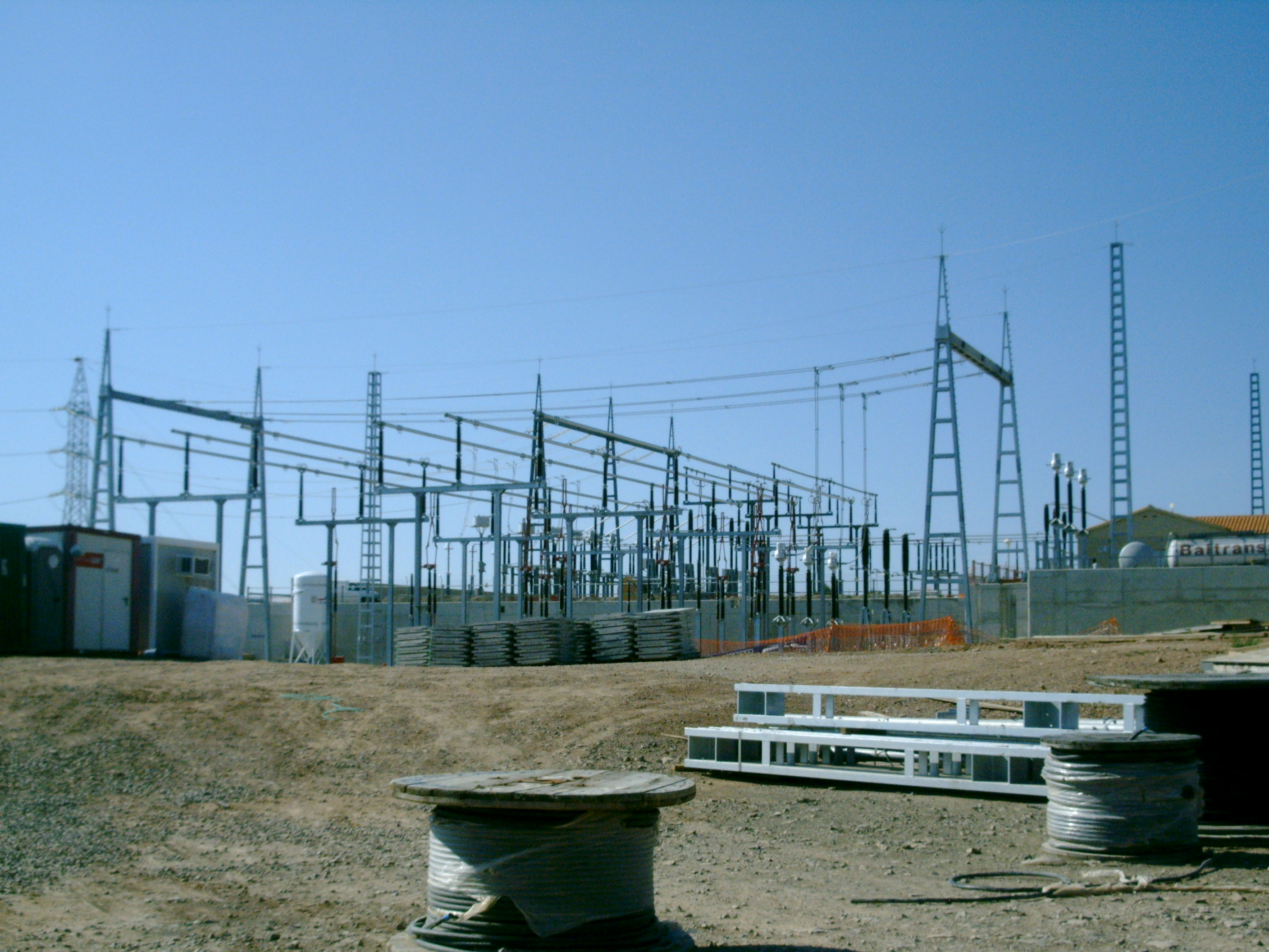 Substation at the wind farm on Serra de Rubió. It's in Parc Eòlic de Rubió.